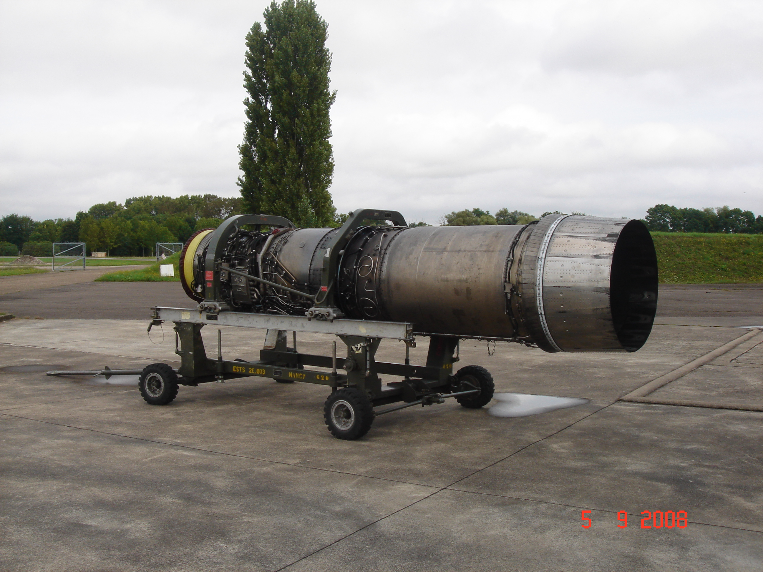 An M53 afterburning turbofan engine